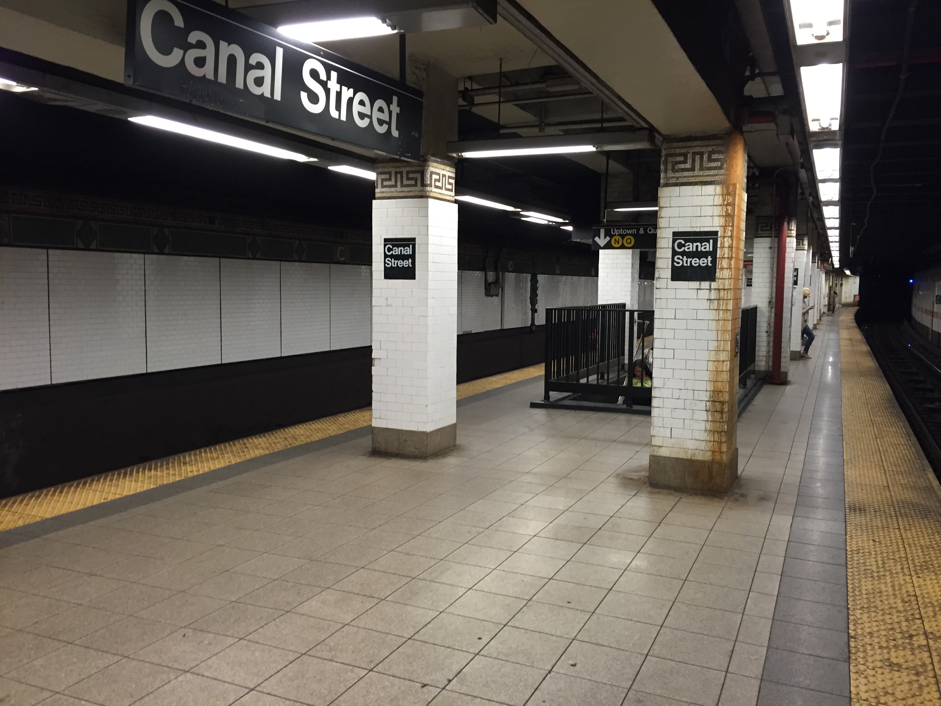 J/Z platform at Canal Street